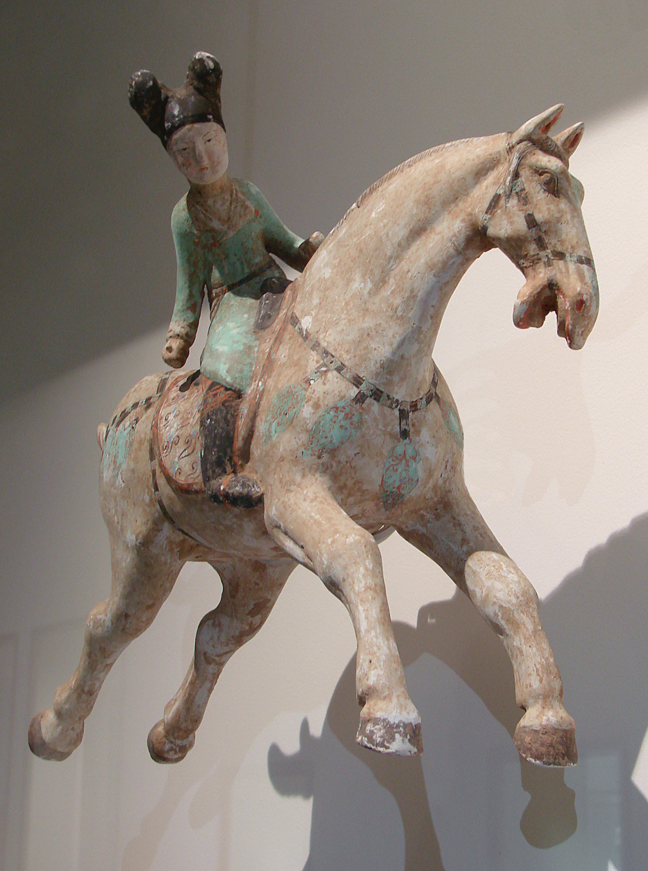 Young women, polo players. First half of the 8th century. Terracotta, engobe and polychromy. Tang Dynasty. Musée Guimet. MA 6116 à 6121.